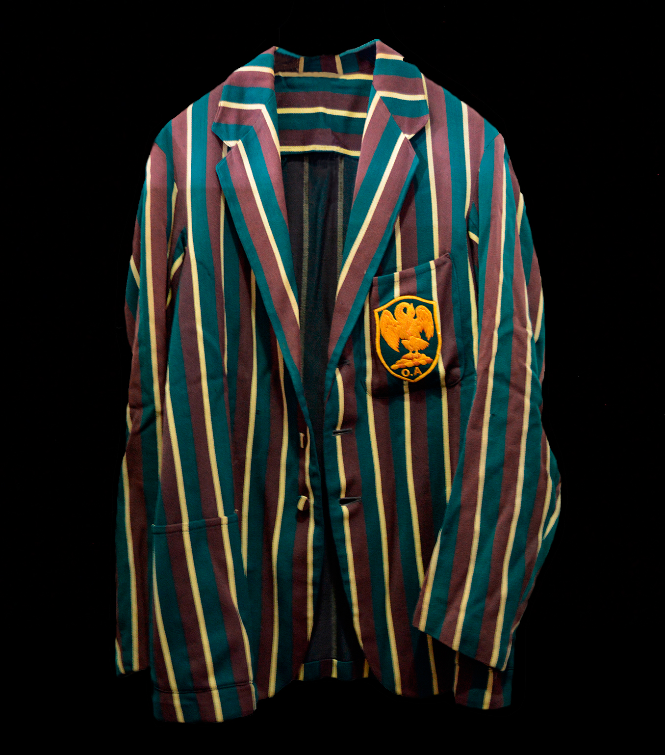 1919 Vintage striped old boy blazer of former Ardingly College pupils. Embroidered pelican, symbol of Ardingly, as well as the accronym "O.A" meaning "Old Ardinian". The blazer itself has the three Ardingly colours, Ardingly Green, Brown and cream/gold.